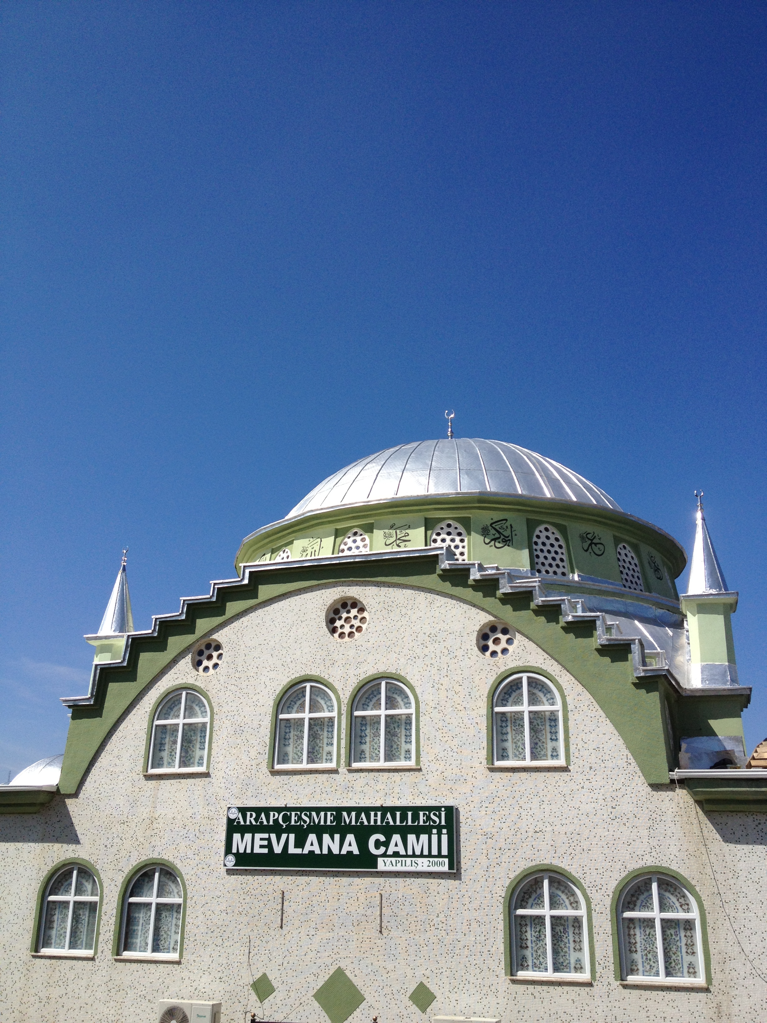 Gebze, Arapçeşme quarter: Mevlana Mosque